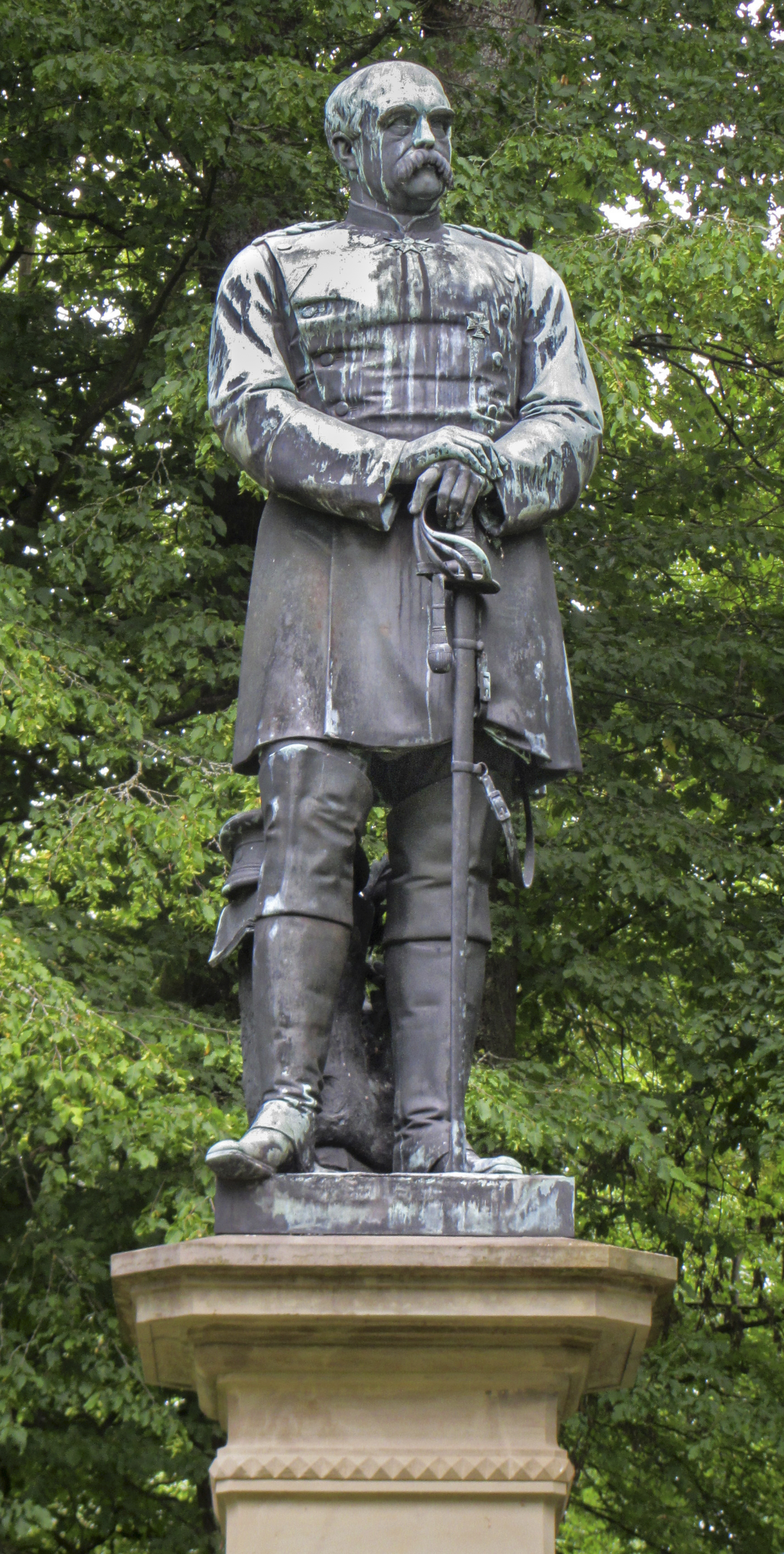 Statue of Otto von Bismarck, sculpted by Heinrich Manger, 1877 // Location: City of Bad Kissingen, Bavaria, Germany